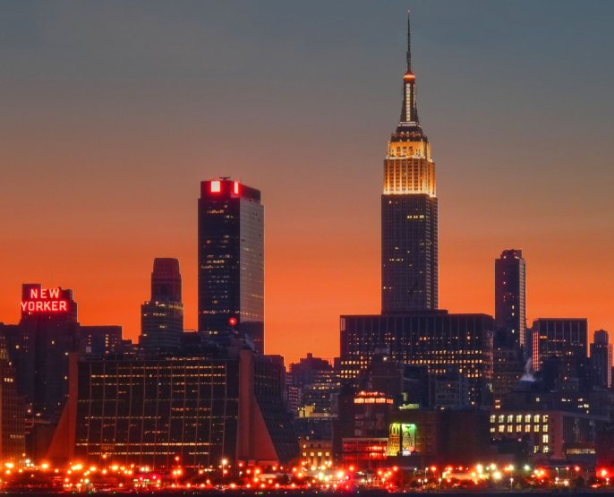 New York City Midtown taken from Weehawken, NJ